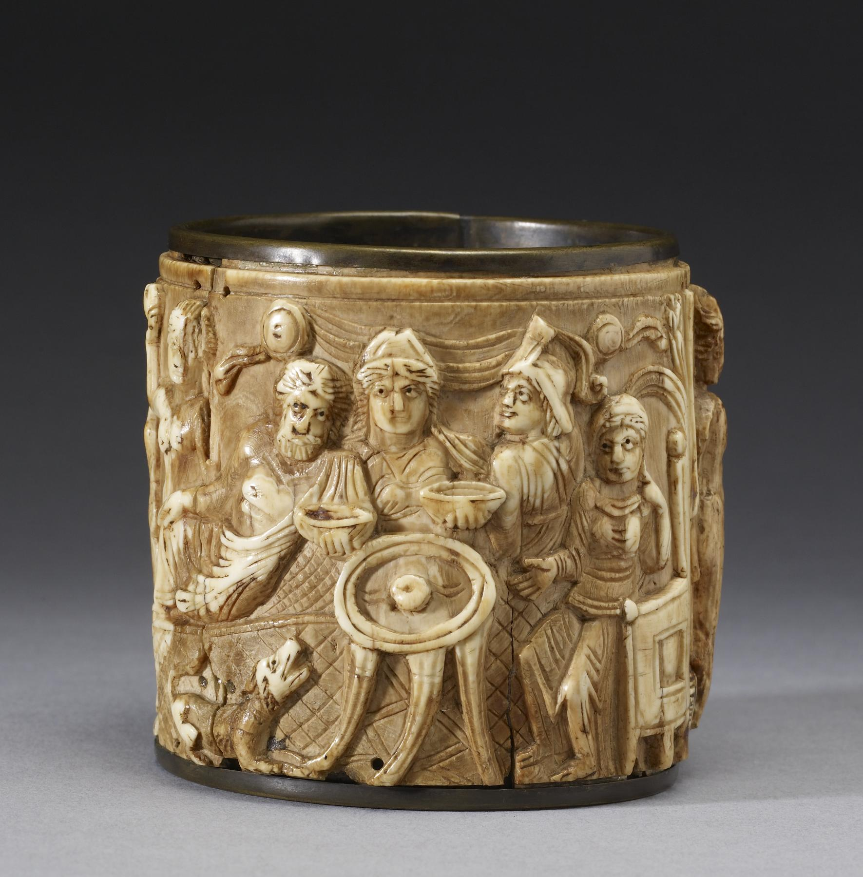 The box is one of a small number to survive from the 4th through 7th centuries, most carved with mythological (pagan) or Christian subjects. Often called "pyxides" (Greek for "boxes"), they served a variety of functions, such as holding incense or a woman's jewelry. The walls of this one contain two episodes from Greek mythology. First, the Olympian gods are seen feasting around a tripod table and holding the golden Apple of the Hesperides. In the next scene, Hermes is awarding the apple to Aphrodite, whom he chose over Athena and Hera (shown to her sides) as the most beautiful among goddesses.